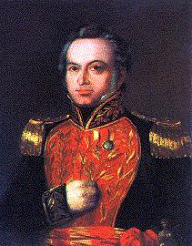 Portrait of venezuelan general and presidente José Antonio Páez